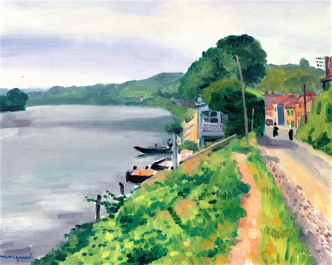 Banks of the Seine at La Frette